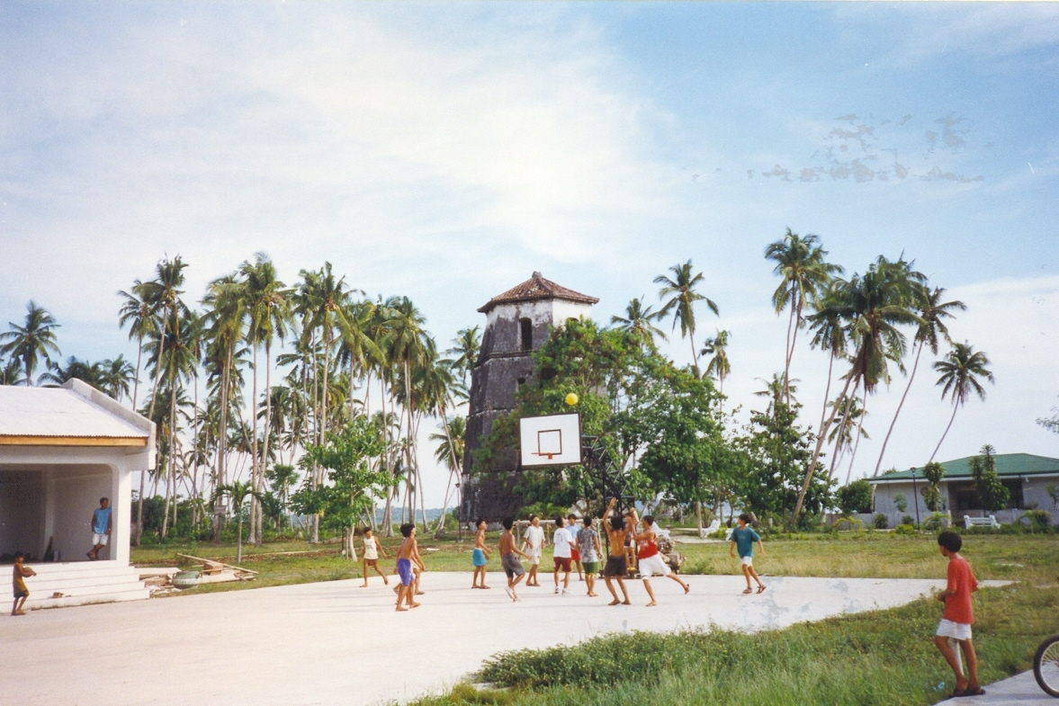 Children playing basketball on Panglao island (south of Bohol) in The Philippines. Basketball is a very popular sport in The Philippines.